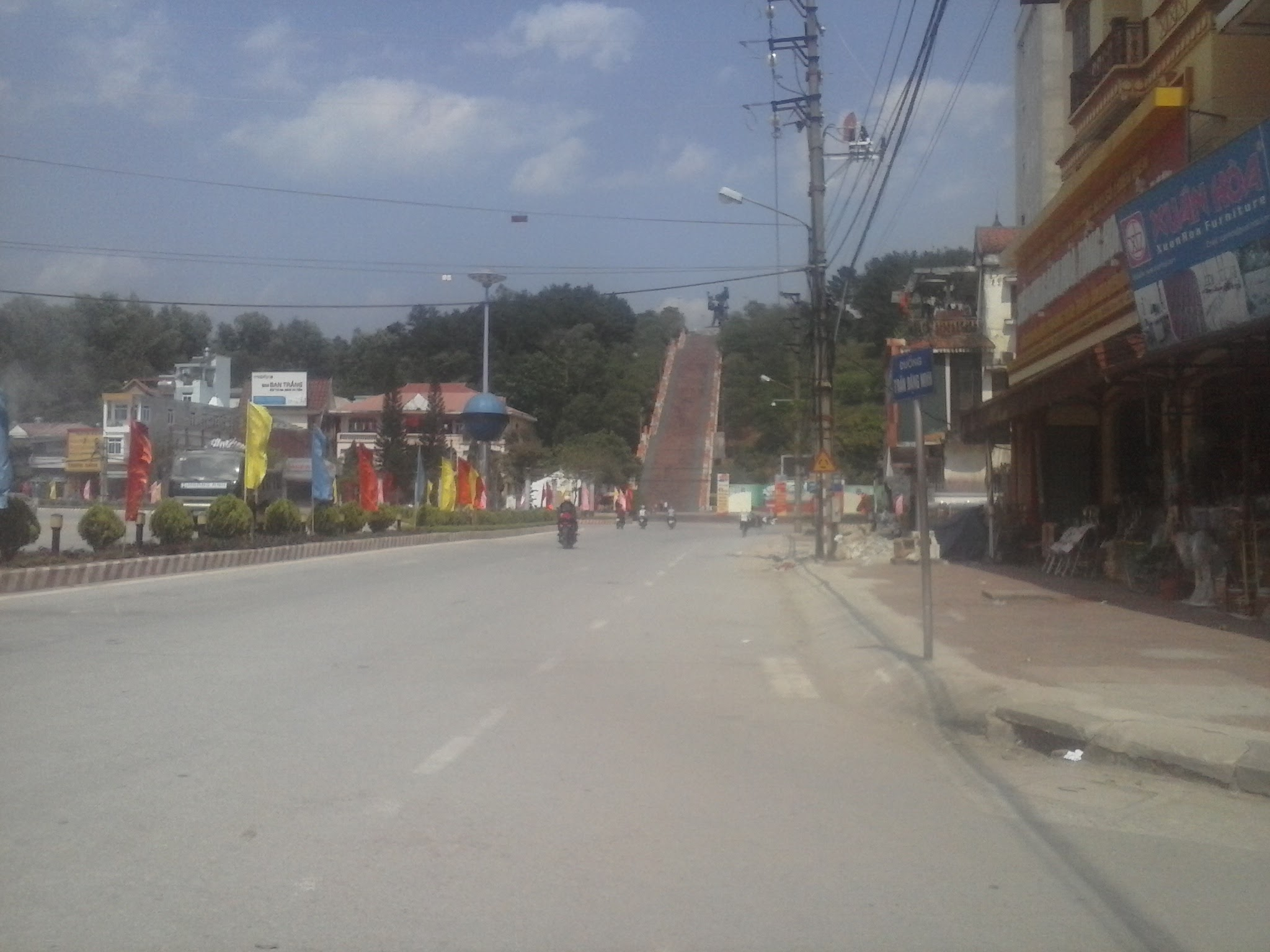 A route in Dien Bien Phu